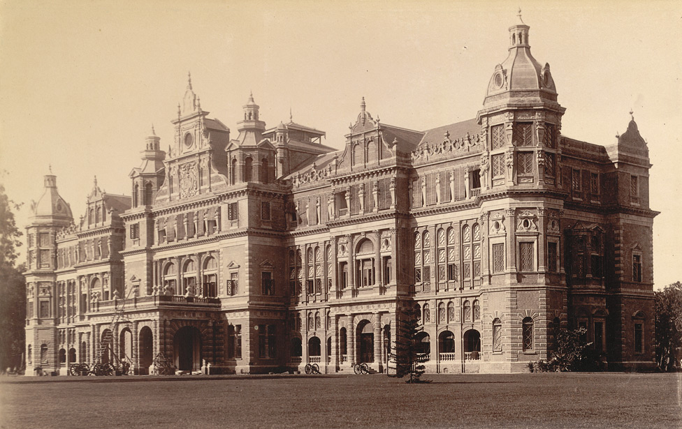 Photograph of Government House at Rangoon (Yangon), in Burma, probably taken by Philip Adolphe Klier in the 1890s. This is a view of the new Government House in Rangoon, built between 1892 and 1895. It replaced a timber building and was designed in what its architect, a Mr Hoyne-Fox, described as ‘Queen Anne Renaissance’ style. Rangoon was itself rebuilt on a grid plan by the British colonial government in the mid-19th century and the later 19th century saw the construction of a number of new public buildings. B.R. Pearn, in his ‘History of Rangoon’ (1939), notes that there was some local criticism of the aesthetic quality of these new buildings.